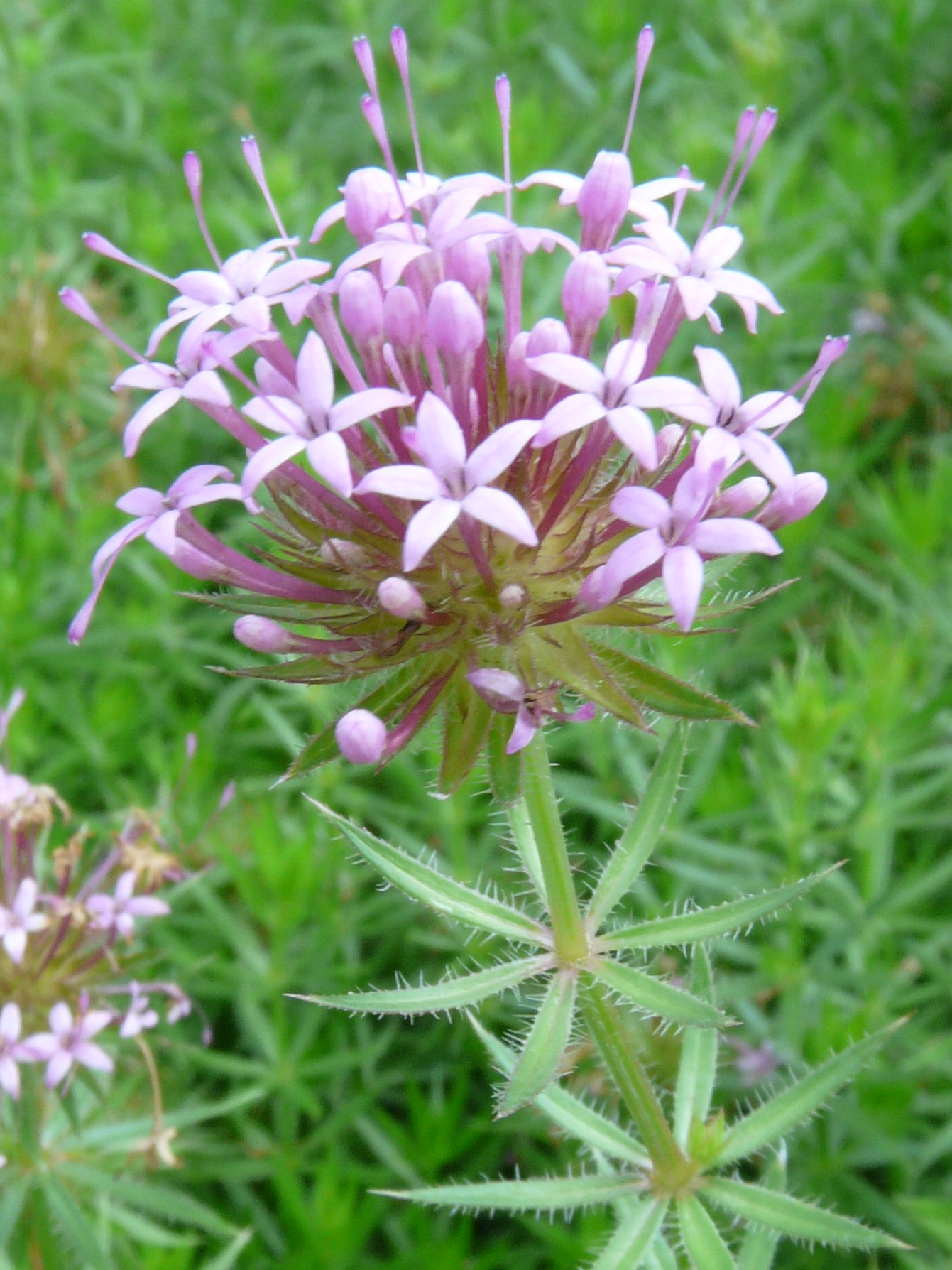 Phuopsis stylosa (Botanical Gardens Utrecht)